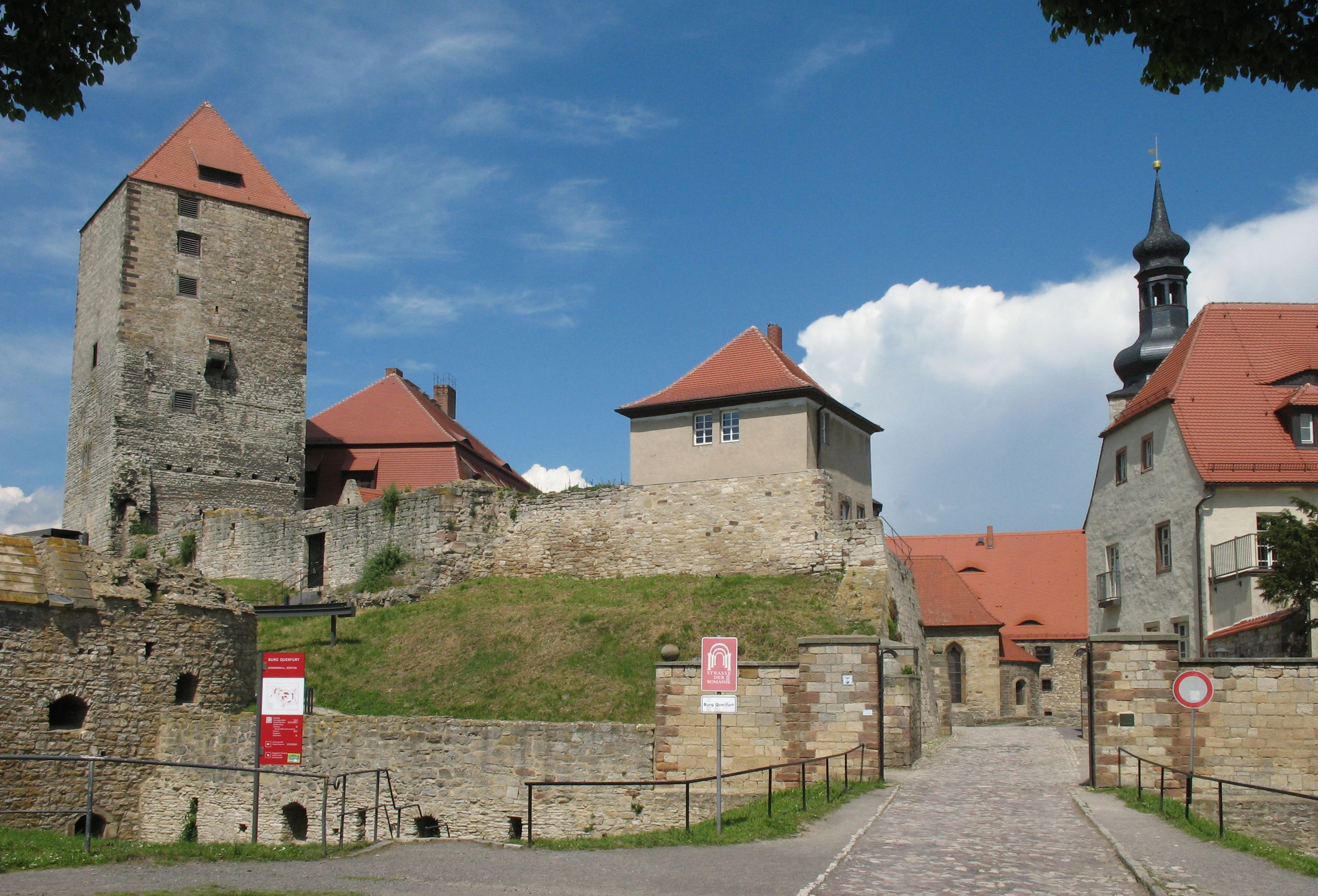 Castle in Querfurt in Saxony-Anhalt, Germany